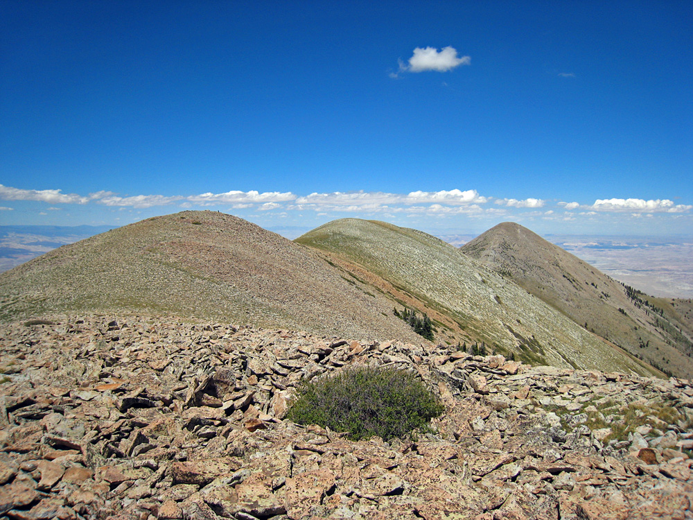 Mount Ellen is the high point of the Henry Mountains in Garfield County, Utah, USA. Though the far pointed peak in this picture is the named peak the high point is actually on the middle peak along the ridge at 11,522 feet.